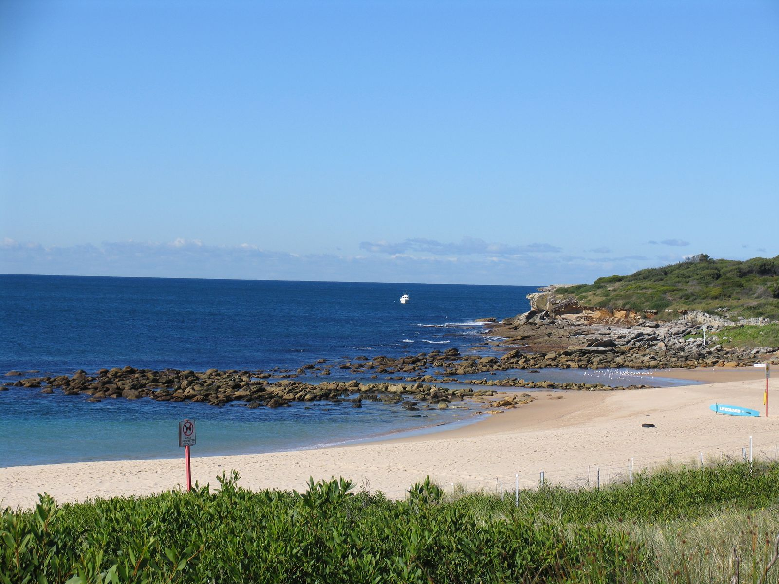 South part of the beach where either divers are or people walks up to the shore - July 2007